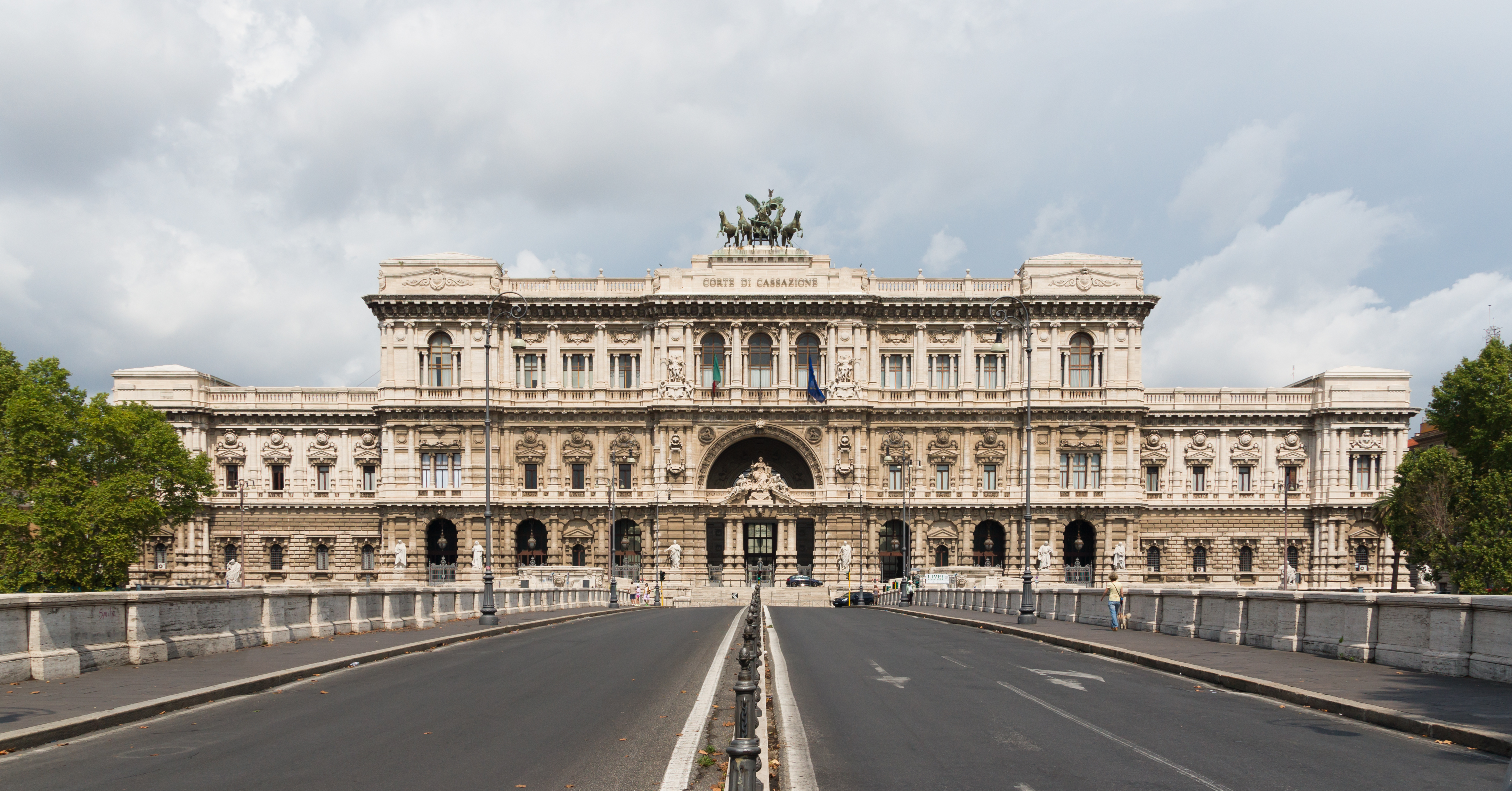 The facade of the Courthouse, Rome, Italy.